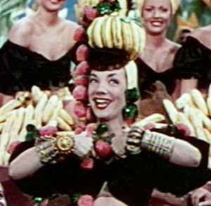 Cropped screenshot of Carmen Miranda from the trailer for the film The Gang's All Here